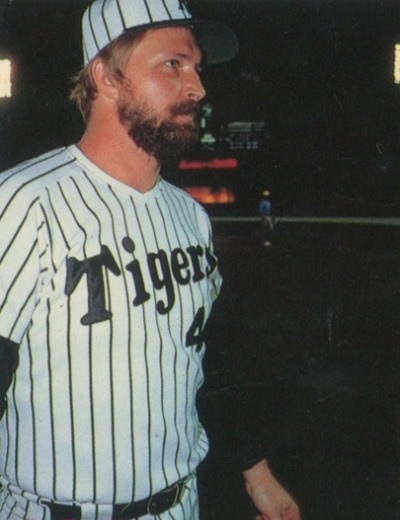 Randy Bass With The Hanshin Tigers